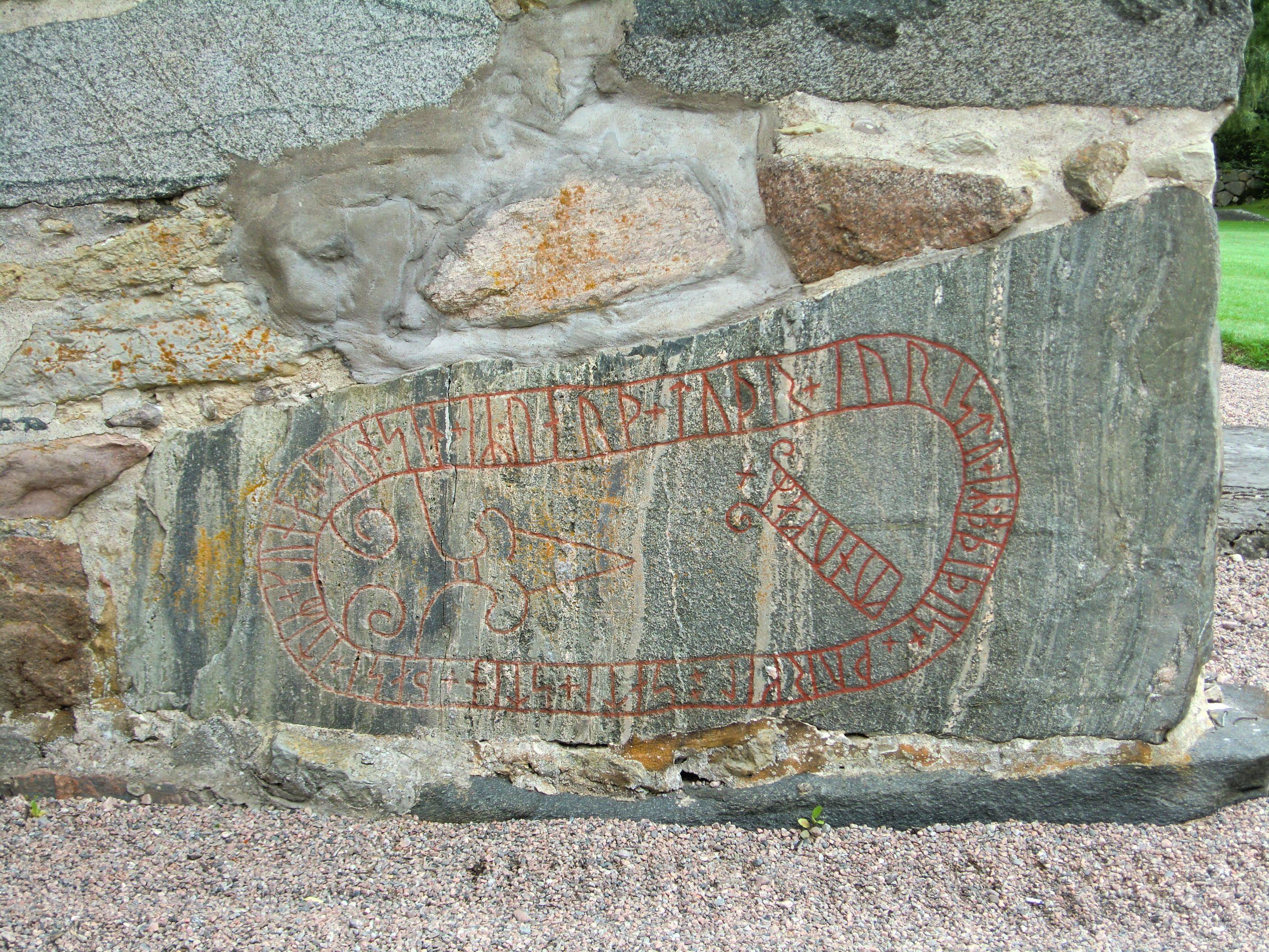 Runestone (Vg 40) in the wall of Råda church, Kålland, Sweden. Text: þurkil ÷ sati + stin + þasi + itiR + kuna + sun * sin + iR * uarþ + tuþr + i uristu + iR * bþiþus + kunukaR × Translation: Torkel erected this stone after his son Gunne. He fell in the battle when the kings fought. It is not known which battle is referred to in the text. It may e.g be the battle of Svolder, or the battle of Helgeå.